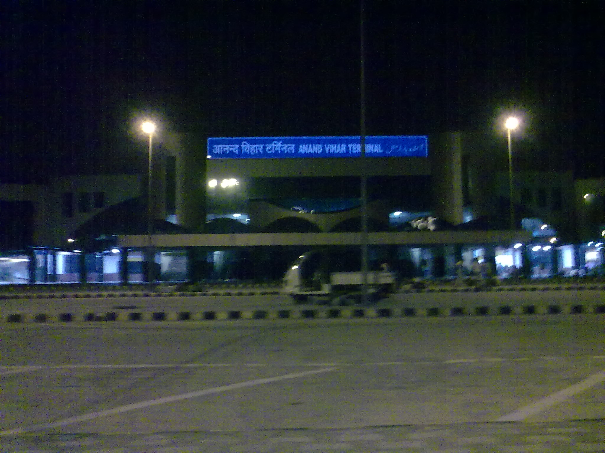 ANVT Night